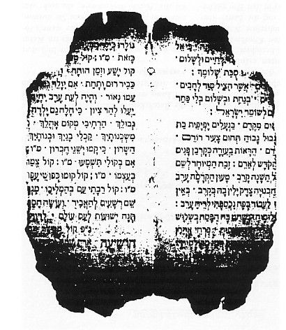 Fragment of Torah scroll burned during Kristal Nacht- Ettlingen (Germany). Presently displaid in the town archives of Ettlingen.